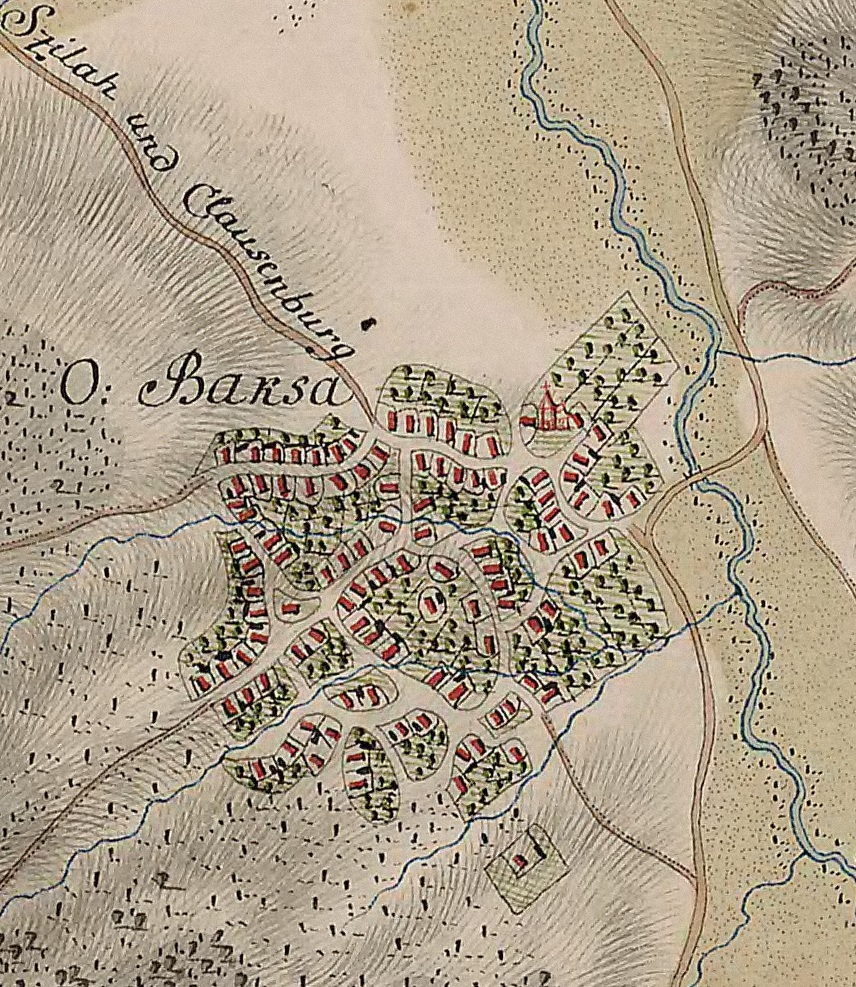 Bocşa in the 18 century. The map was drawn between 1769 and 1773.